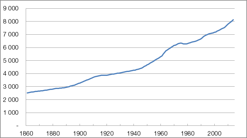 Population Switzerland 1861-2014 (in 1000)